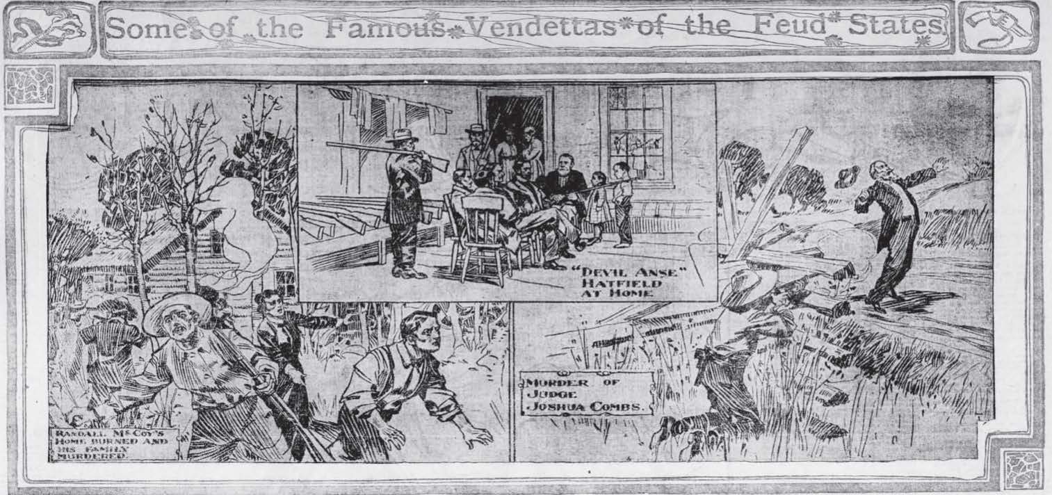 Old 19th century graphic of the murder of Judge Josiah H. Combs, the last killing of the French–Eversole feud.